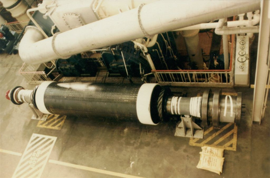 Dismantled for maintainance Dungeness Generator 3 of 3 See where this picture was taken. ? License on Flickr (2011-01-13): CC-BY-2.0 Flickr tags: power station, generator, walland marsh, Romney, Marsh, england, kent, uk